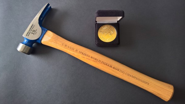 Hammer and medal of 2018 C.R.A.S.H.-B. Sprints